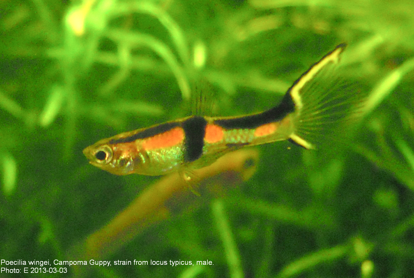 Poecilia wingei, Campoma-Guppy, male, population from locus typicus. The fish is a descendant from the population which is called "P. wingei Ca" in Table1. Origins and sources of fishes in Susanne Schories, Manfred K. Meyer & Manfred Schartl, Description of Poecilia (Acanthophacelus) obscura n. sp., (Teleostei: Poeciliidae), a new guppy species from western Trinidad, with remarks on P. wingei and the status of the “Endler’s guppy”, Zootaxa 2266: 35–50 (2009) online: This strain is kept by me since the beginning of 2010. Conditions: No selection by me. Temperature 25 degrees Celsius, water hardness approx. 14 degrees dH, pH 7, approx. 13 hours artificial light per day. Food: Tetra Guppy, freshly hatched Artemia nauplii, FD-Artemia. Photo taken on March 3rd, 2013.